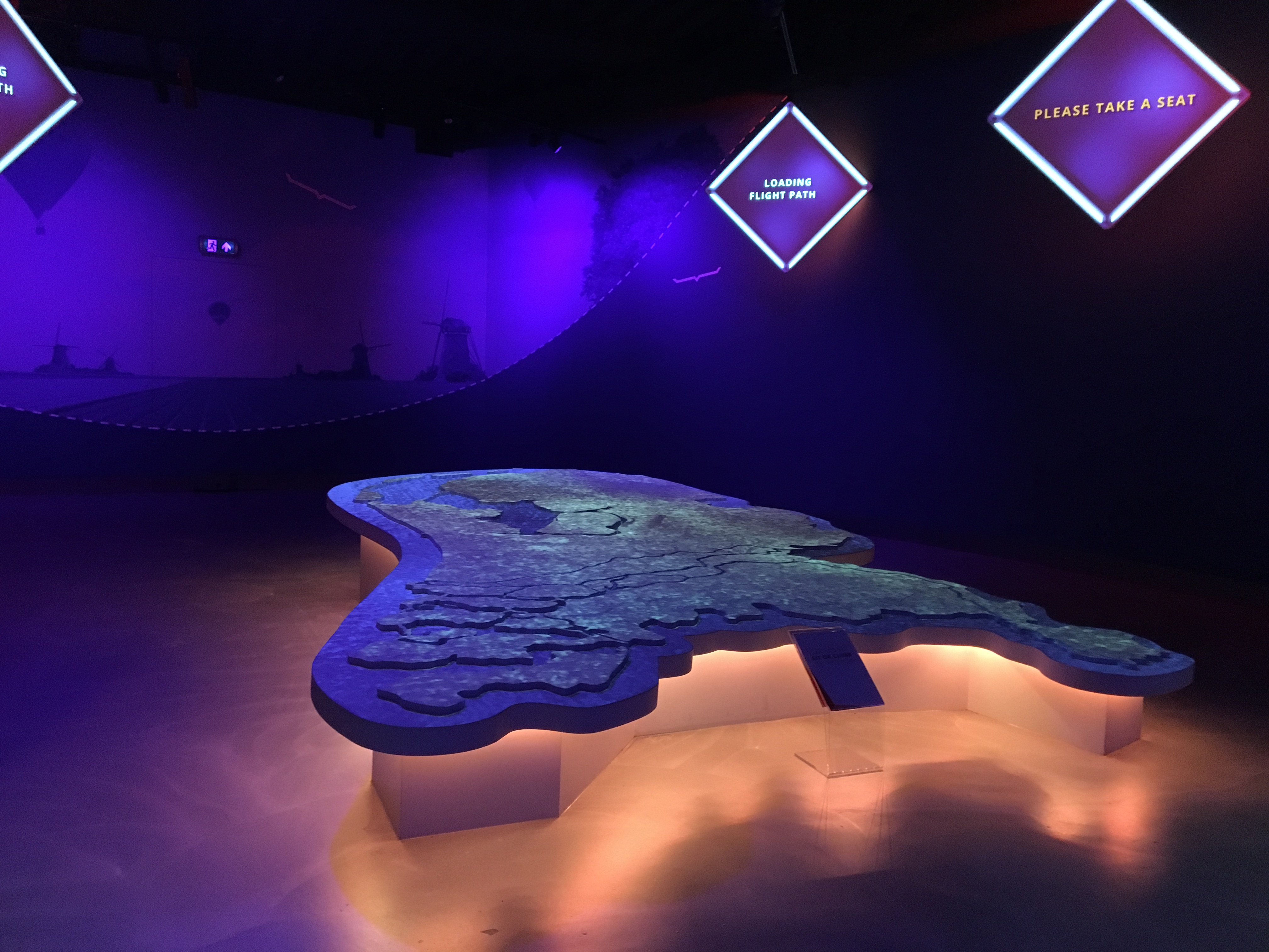 This Is Holland 4d movie